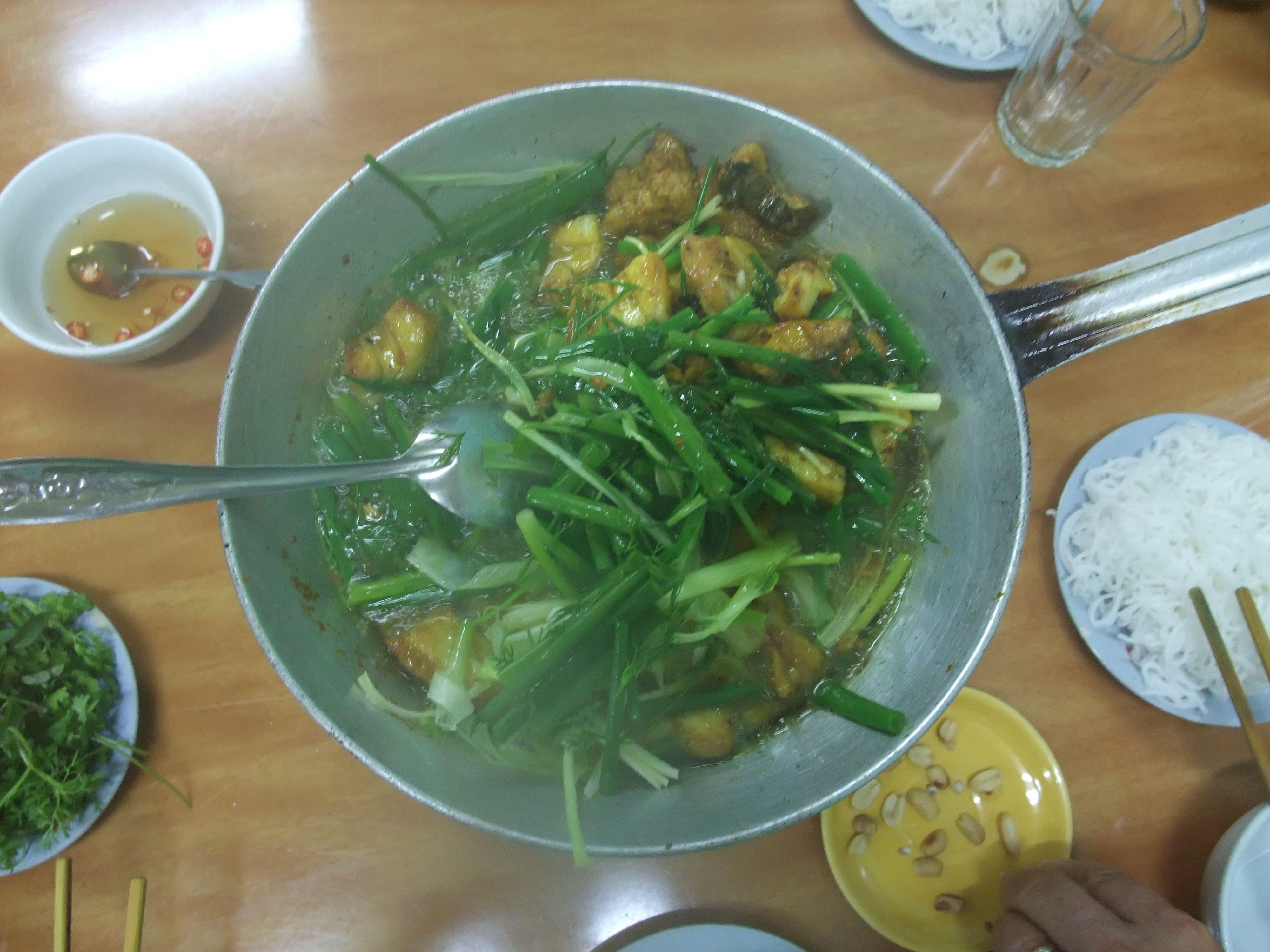 At 14 Cha Ca Street. The dish is so famous and on so many tourist itineraries that imitation Cha Ca shops have popped up on the same street.